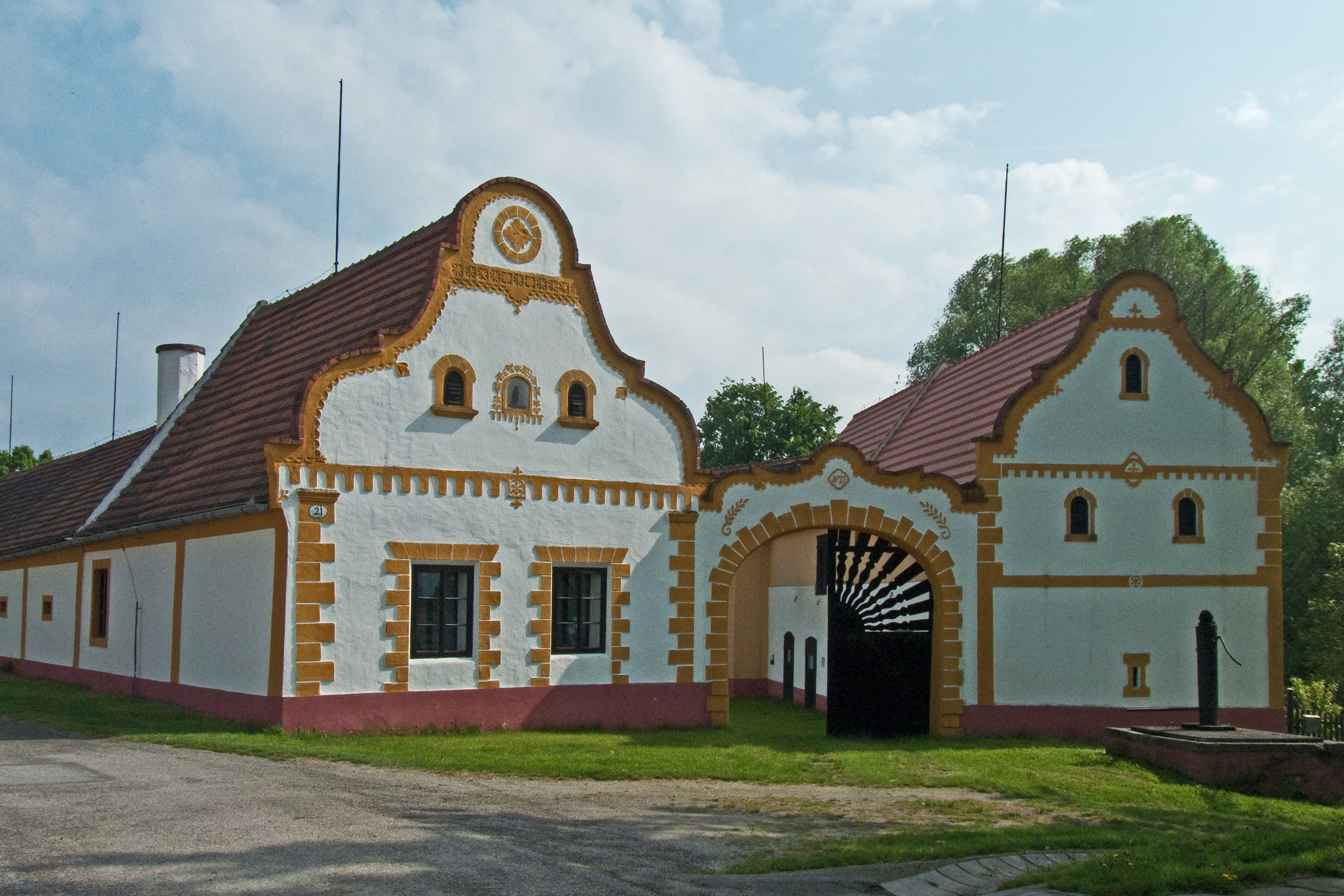 House No 21 in :Bavorovice, a village near Hluboké nad Vltavou, Czech Republic